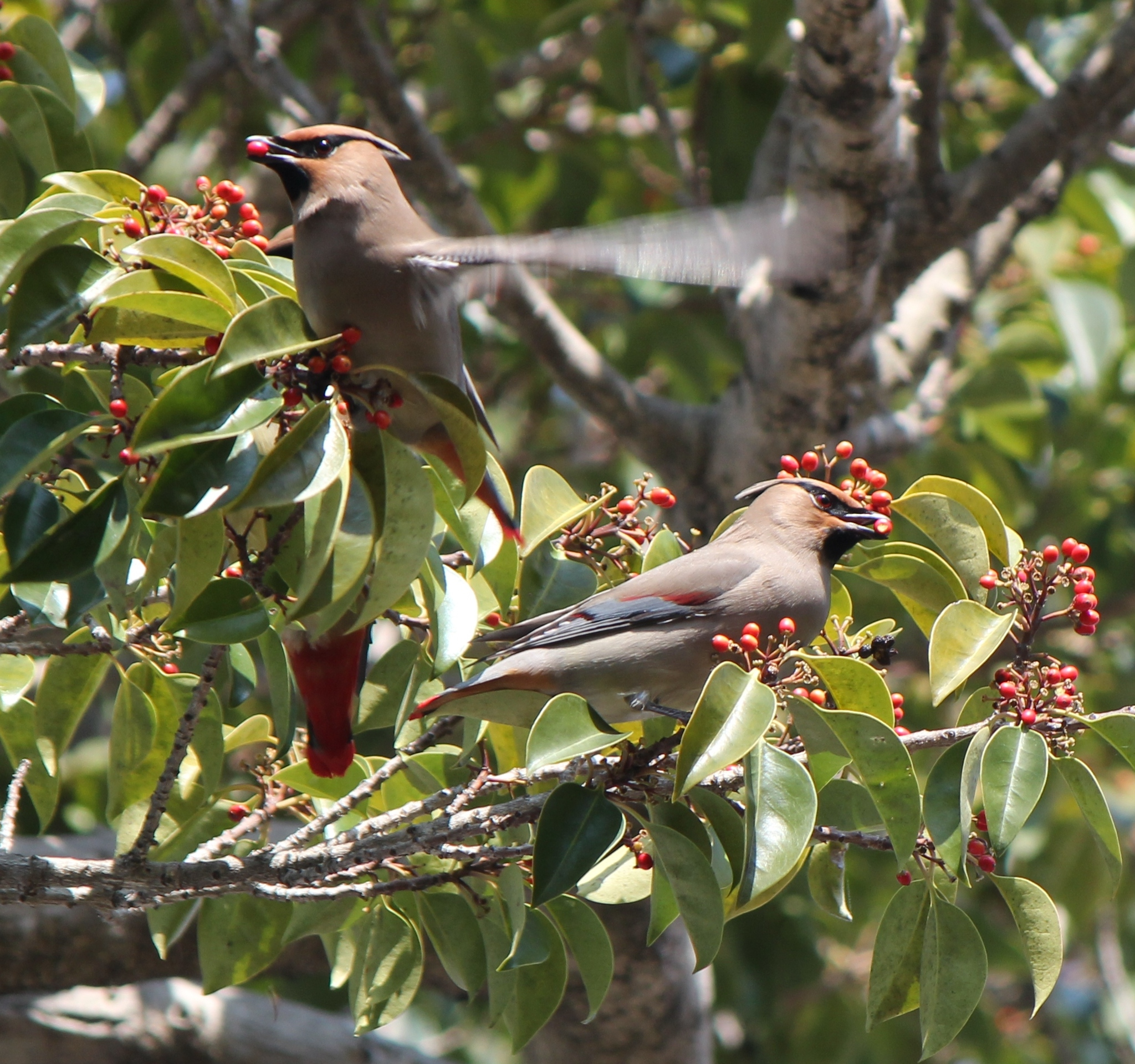 Flocks of Japanese waxwing (Bombycilla japonica) eating fruits of Ilex rotunda, in Gifu prefecture, Japan.